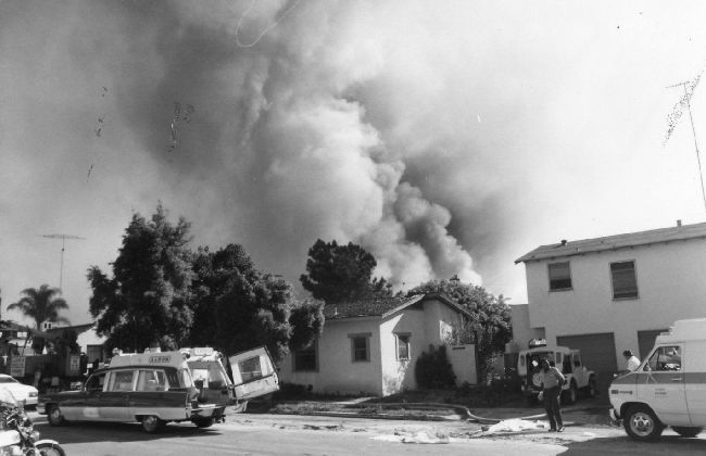 Tragic PSA Crash Flight 182 Sept 25, 1978